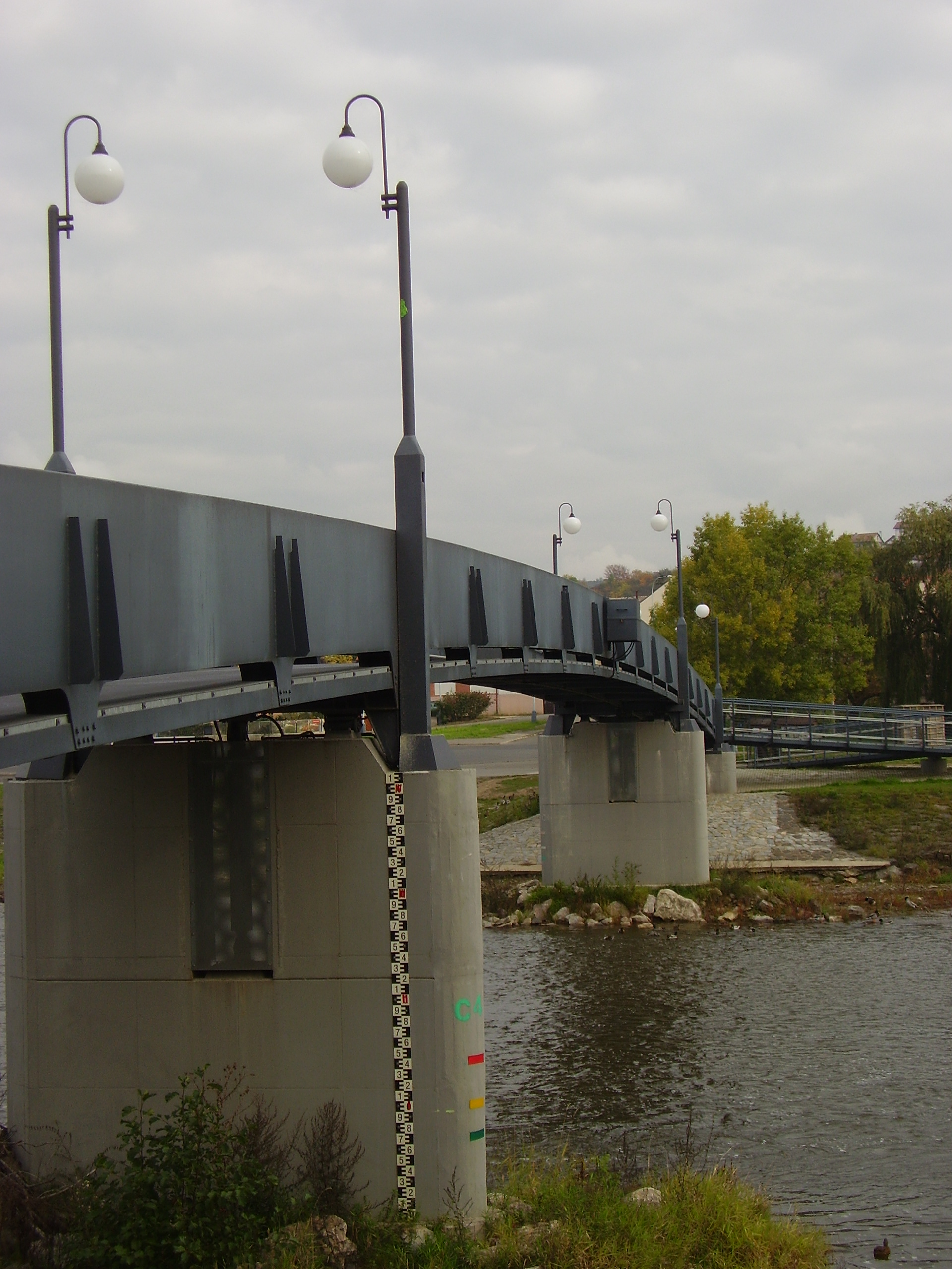 Footbridge between Beroun and Beroun-Závodí, Central Bohemian Region